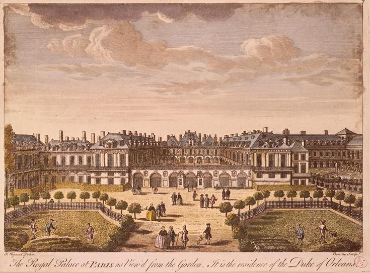 English drawing of the Palais Royal, Paris as viewed from the back by an unknown artist